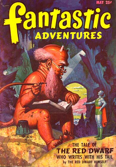 Cover of Fantastic Adventures, May 1947